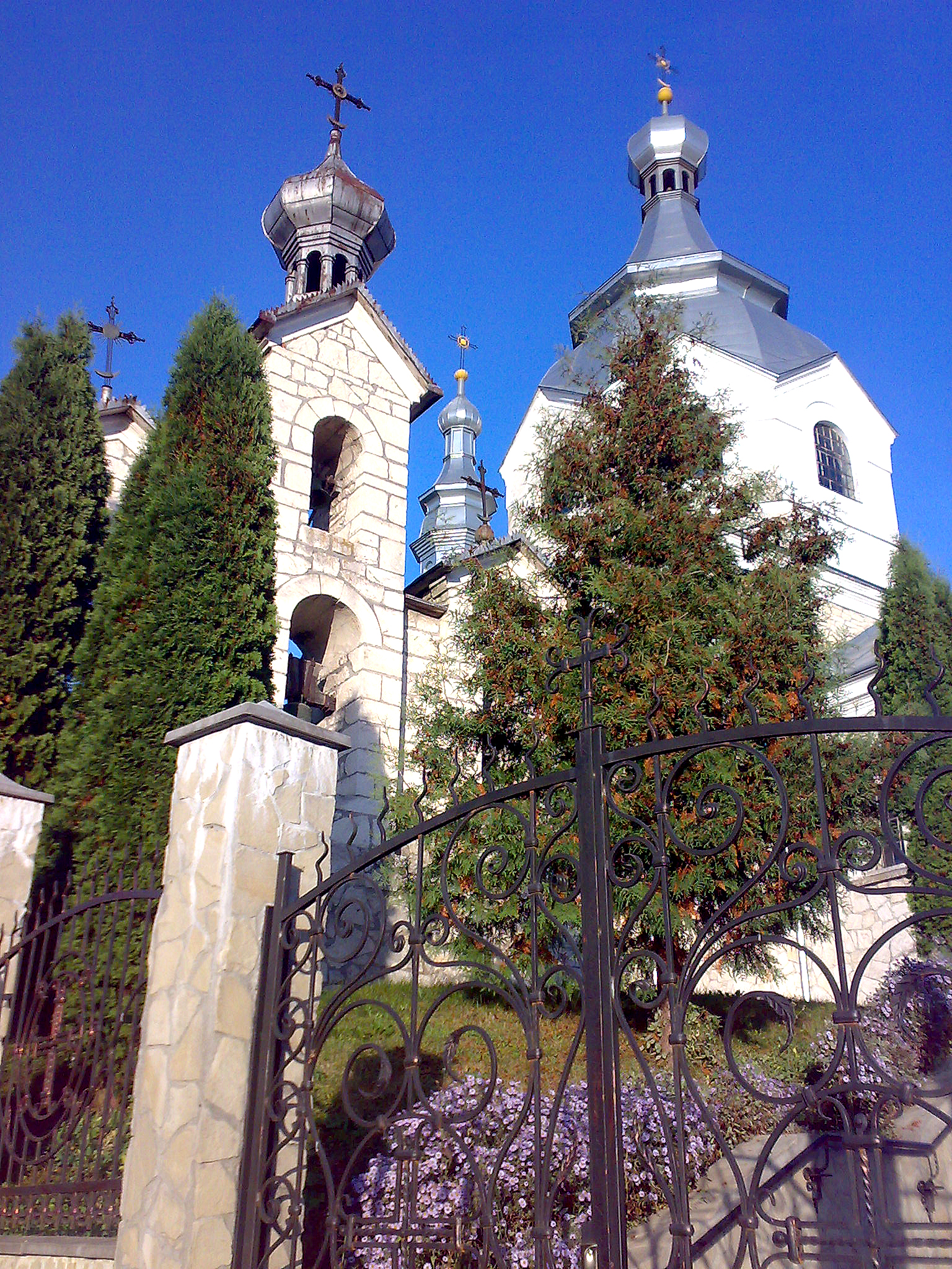 Birth of Virgin Mary Church (1914) in Dunayiv, Lviv Region, Ukraine